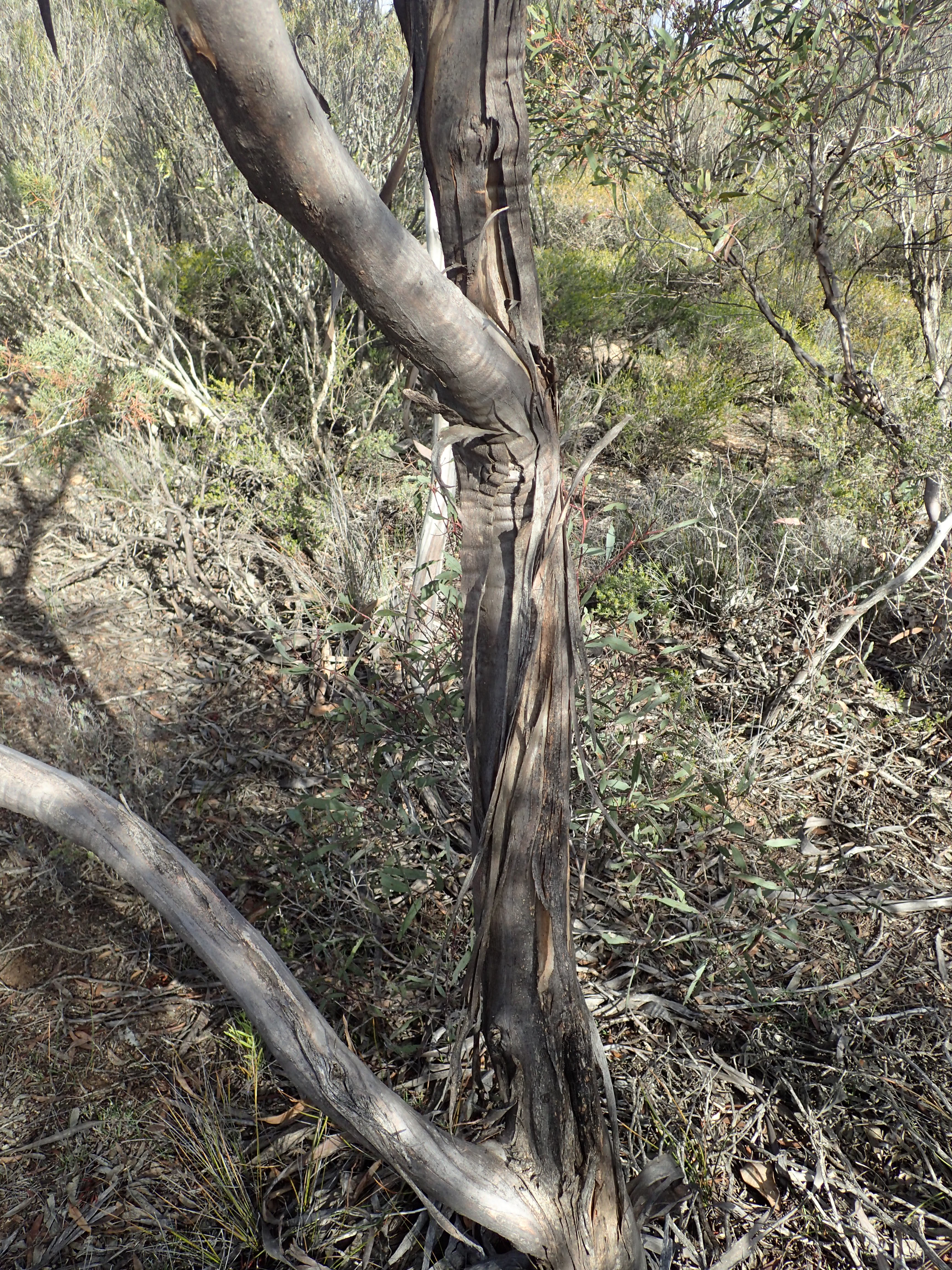 Bark of Eucalyptus luteola near North Road, north of Ravensthorpe